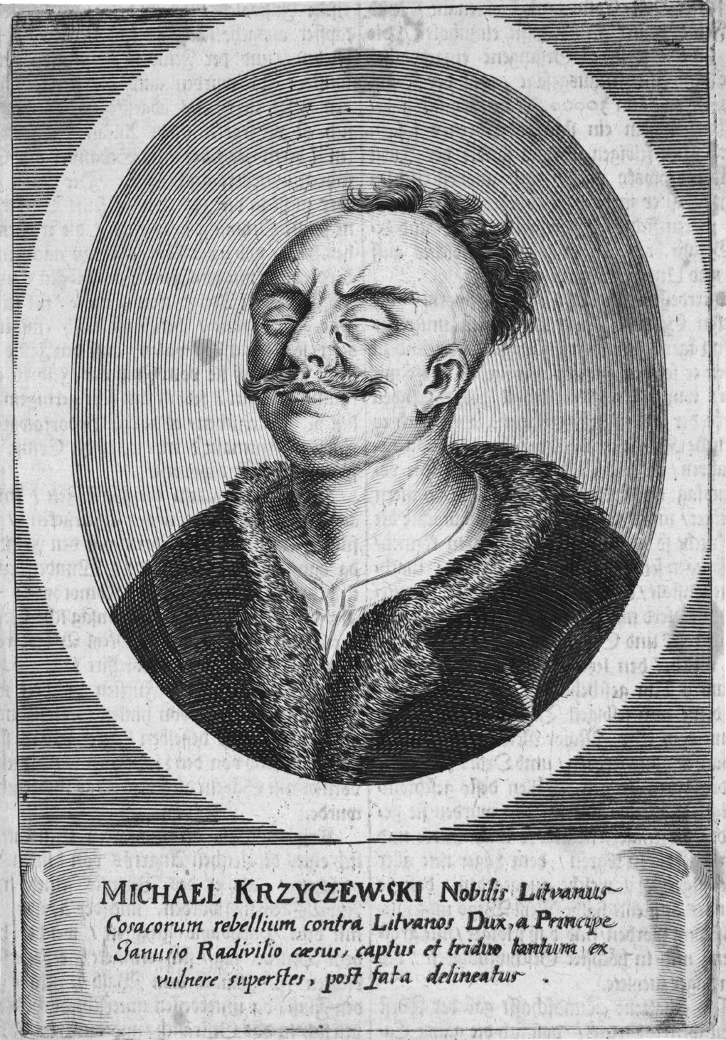 Michael Krzyczewski engraving 17.7 x 12.1 cm (plate)